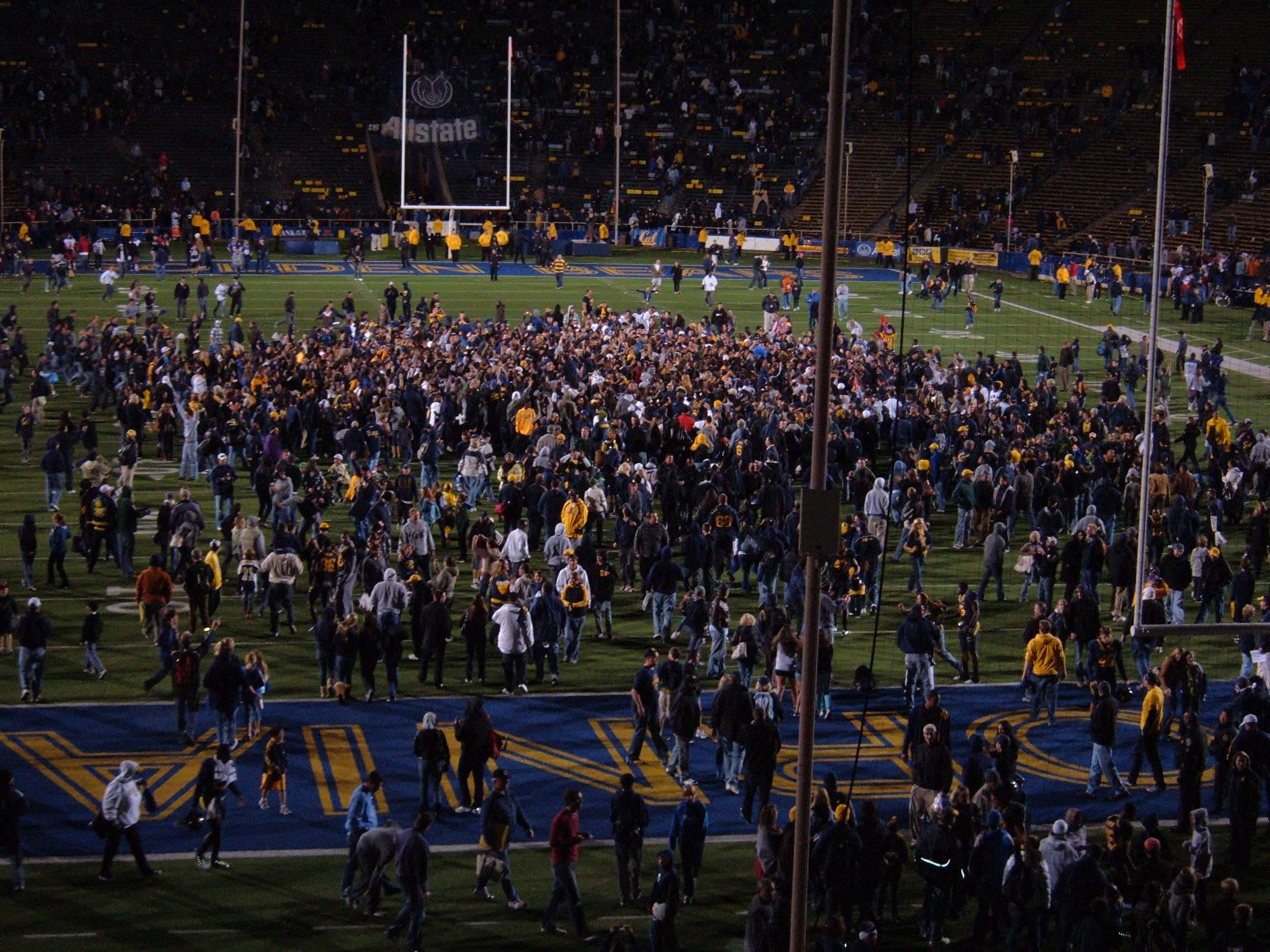 California Golden Bears fans swarm the field at California Memorial Stadium after the Bears upset the #18 ranked Arizona Wildcats 24-16.